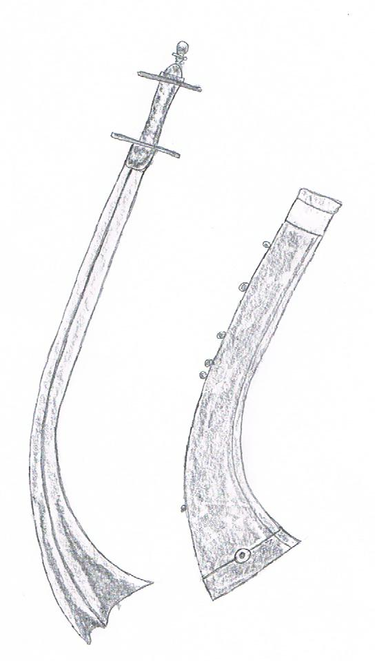 Kora